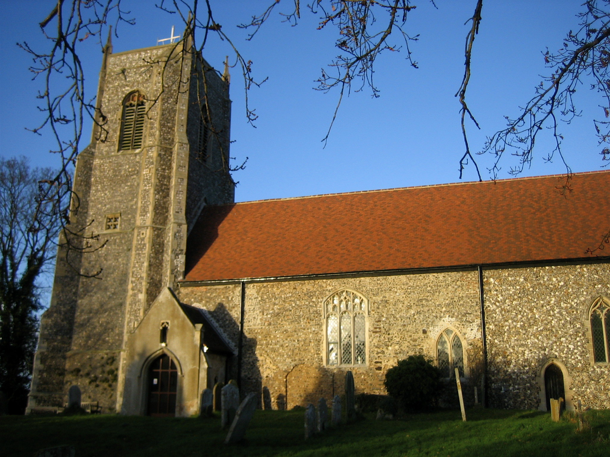 Taken by Tom Coates